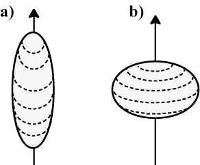 Visão clássica de núcleos quadrupolares: distribuição elipsoidal Prolata (A) e Oblata (B) de carga.